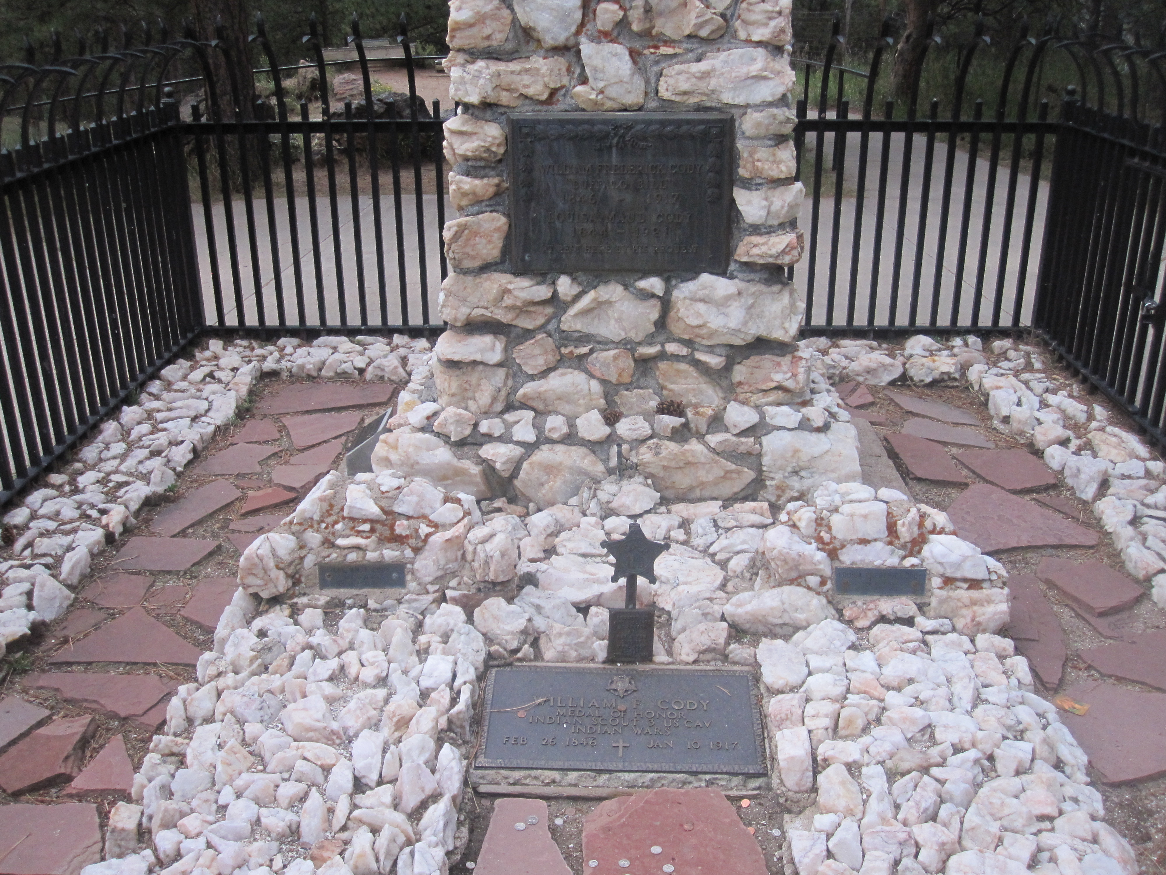 I took photo with Canon camera in Golden, CO.